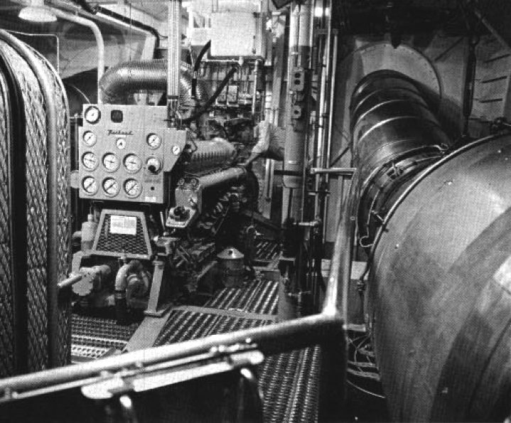 View of the engine room aboard the experimental U.S. Navy hydrofoil USS High Point (PCH-1), circa in 1964.